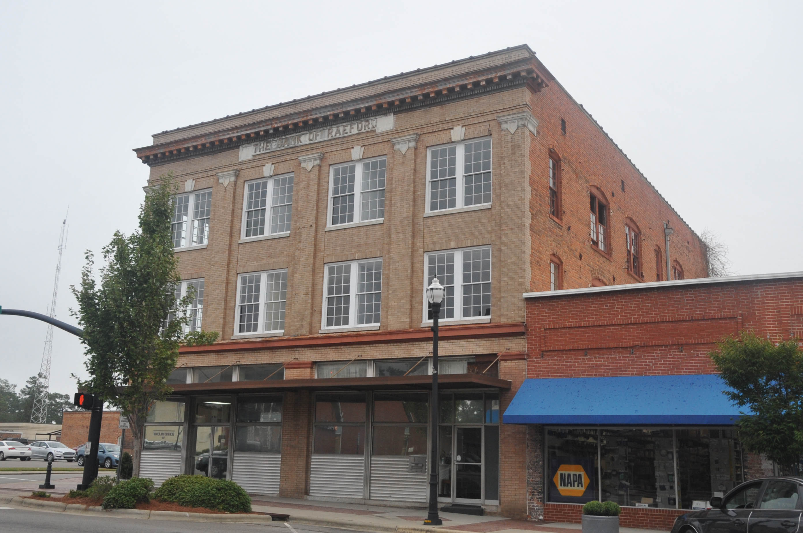 BANK OF RAEFORD, ONE OF 48 CONTRIBUTING BUILDINGS BACK TO 1890’S; NOTICE THE “BANK OF RAEFORD” INSCRIPTION BENEATH THE ROOFLINE